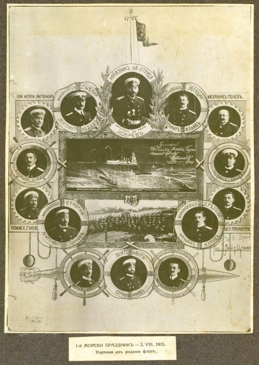 Drazki Crew